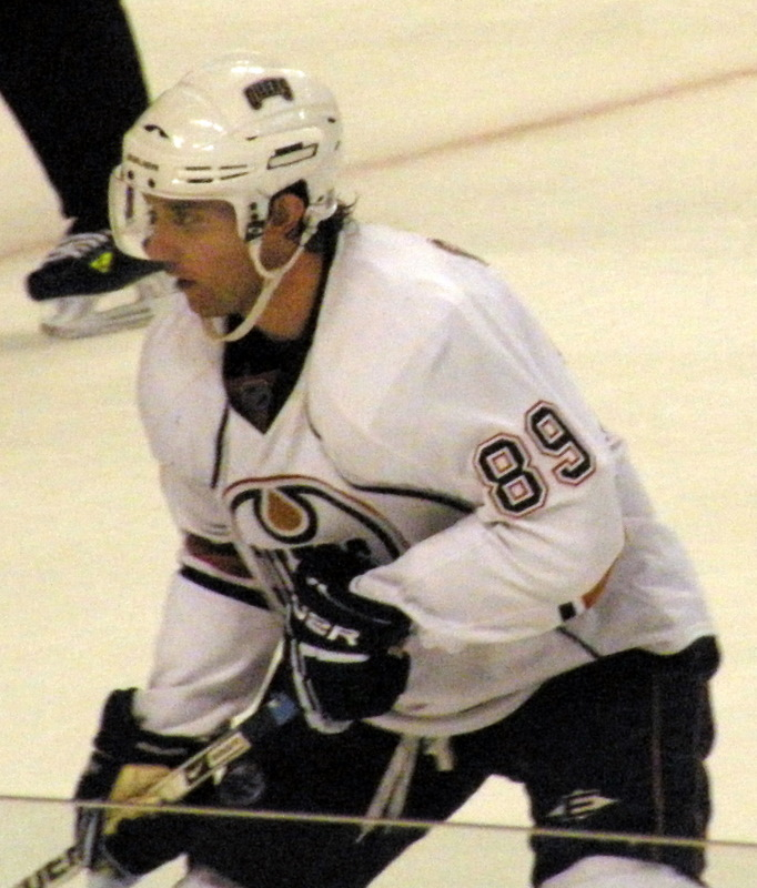 89 Sam Gagner, Edmonton Oilers